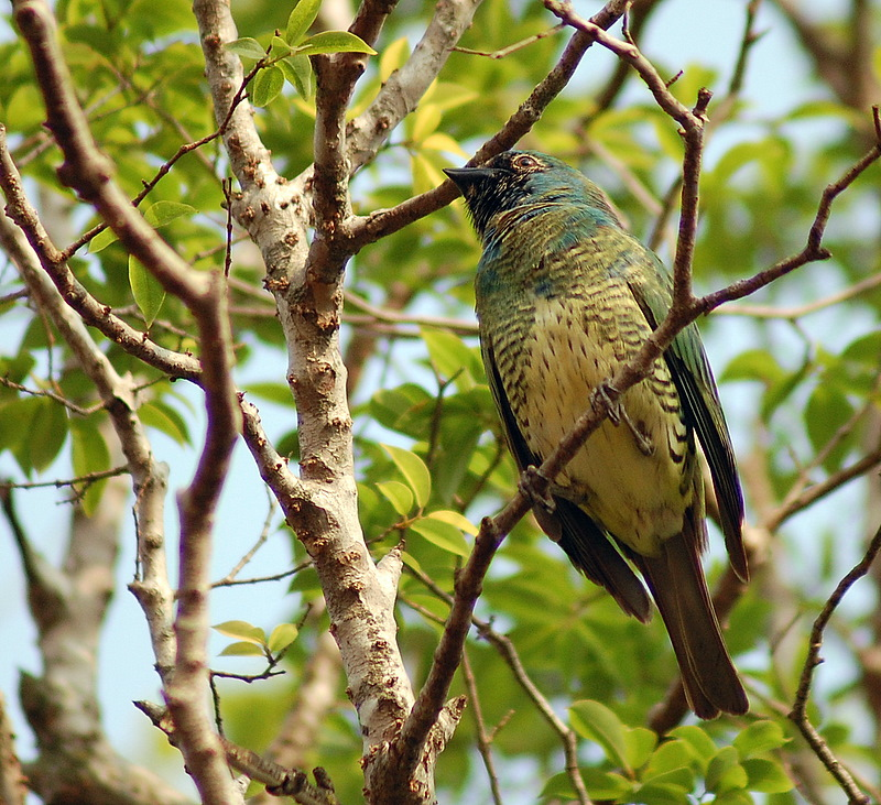 Swallow Tanager Tersina viridis. Piraju-SP